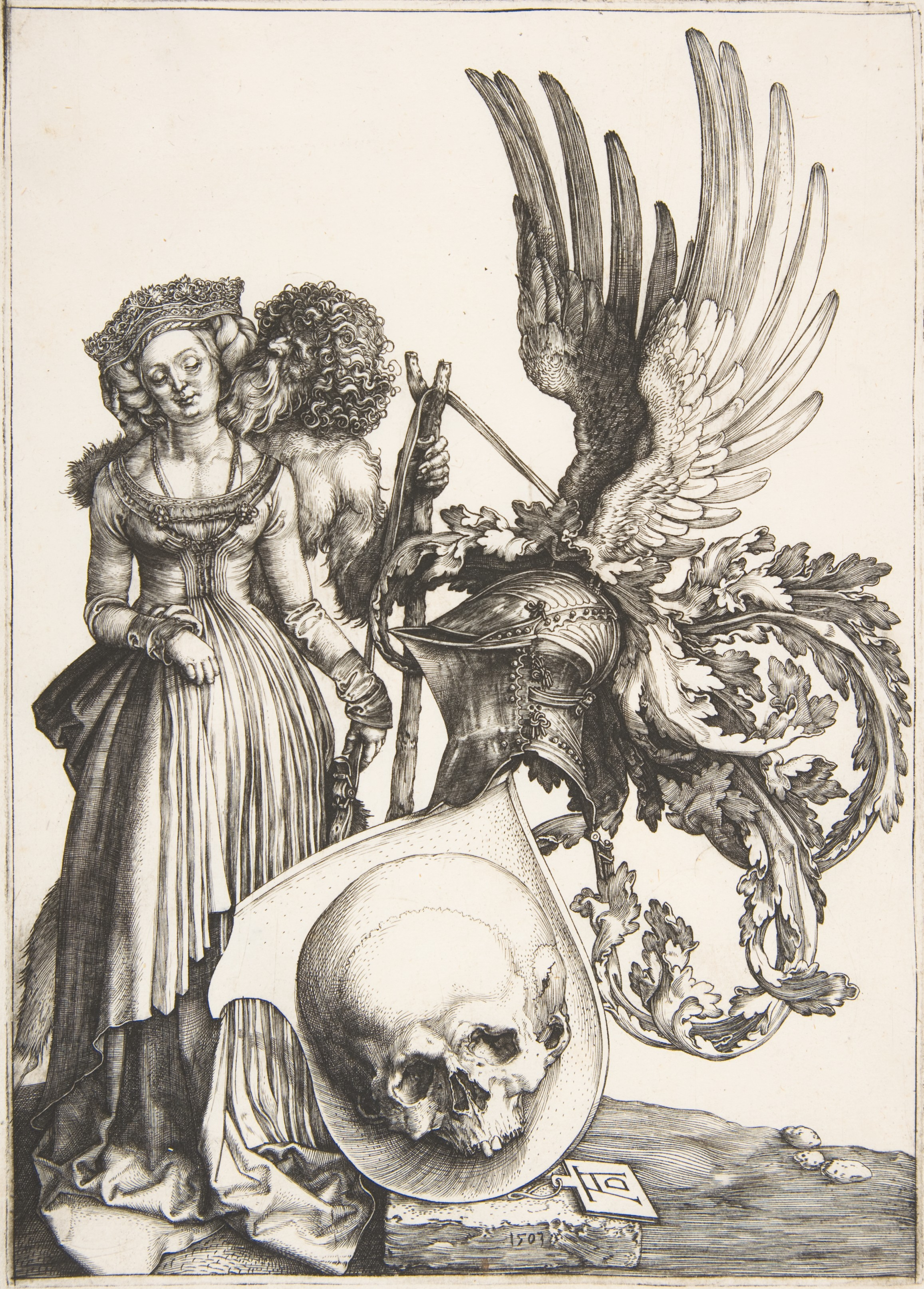 The coat of arms with the skull